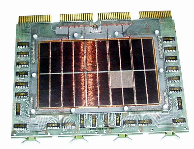 Core memory, capacity about of the size of this PNG image